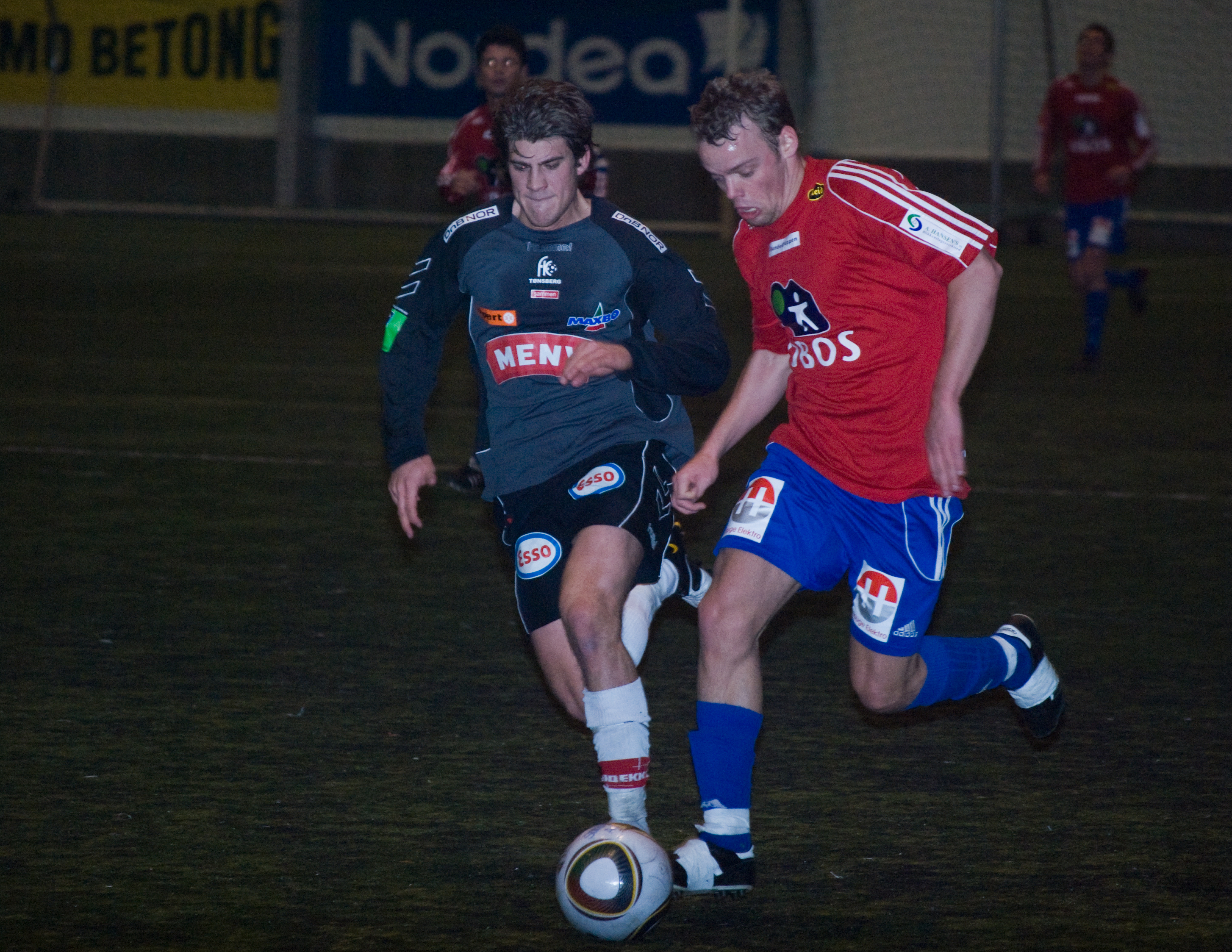 Thomas Valø (R) in a game against FK Tønsberg, 13. februar 2009.